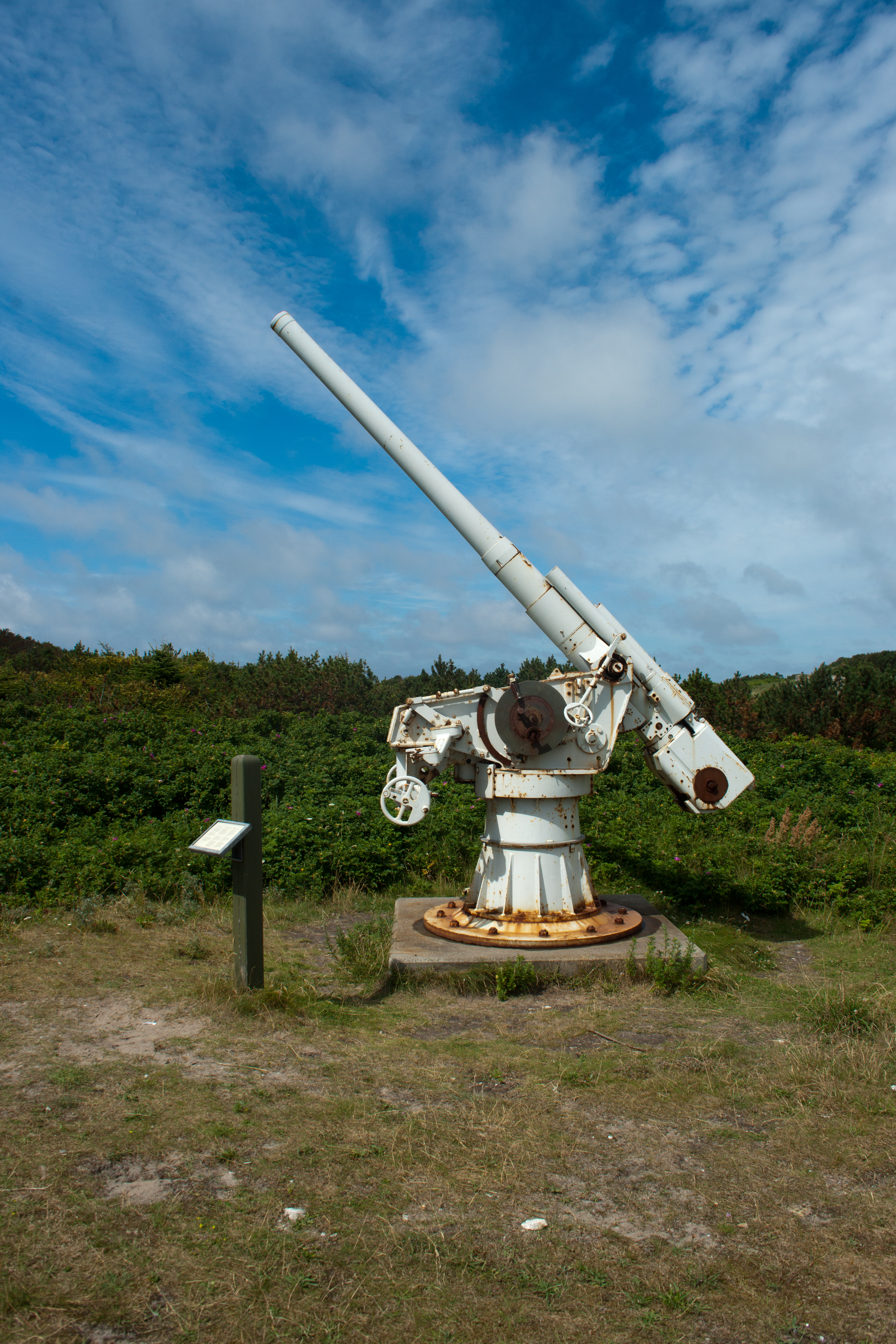 German anti aircraft gun, Hanstholm, Denmark. 10.5 cm S.K.C/32, combined ship and aircraft gun. Used in Hanstholm as coastal defence. Max. range: 15 km. Fire rate: 16 rounds / minute.